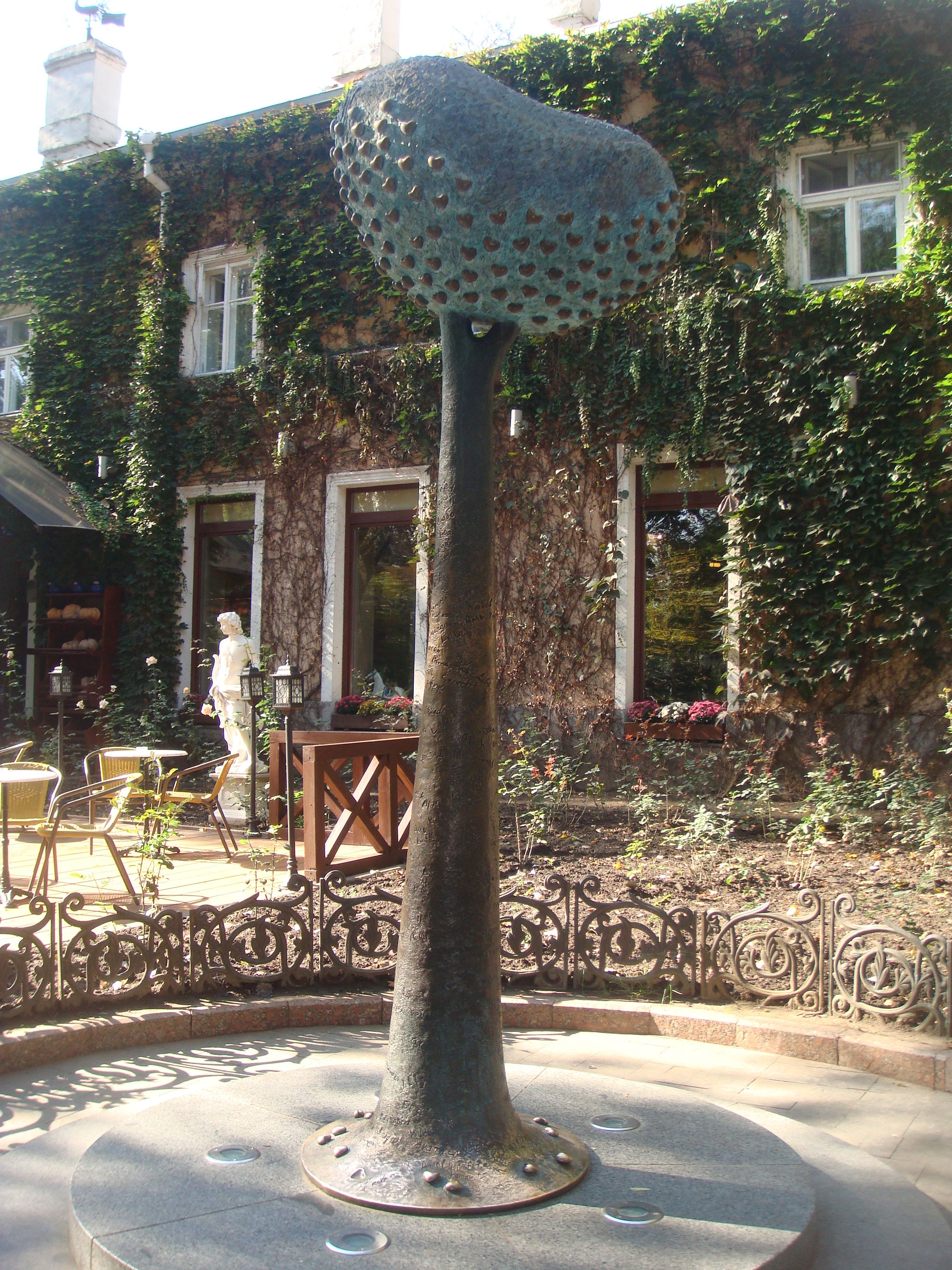 Tree of Love monument in Odessa, Ukraine